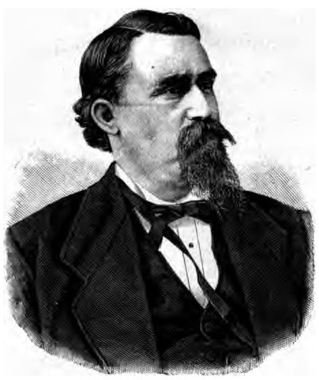 Lowndes H. Davis (US Congressman)